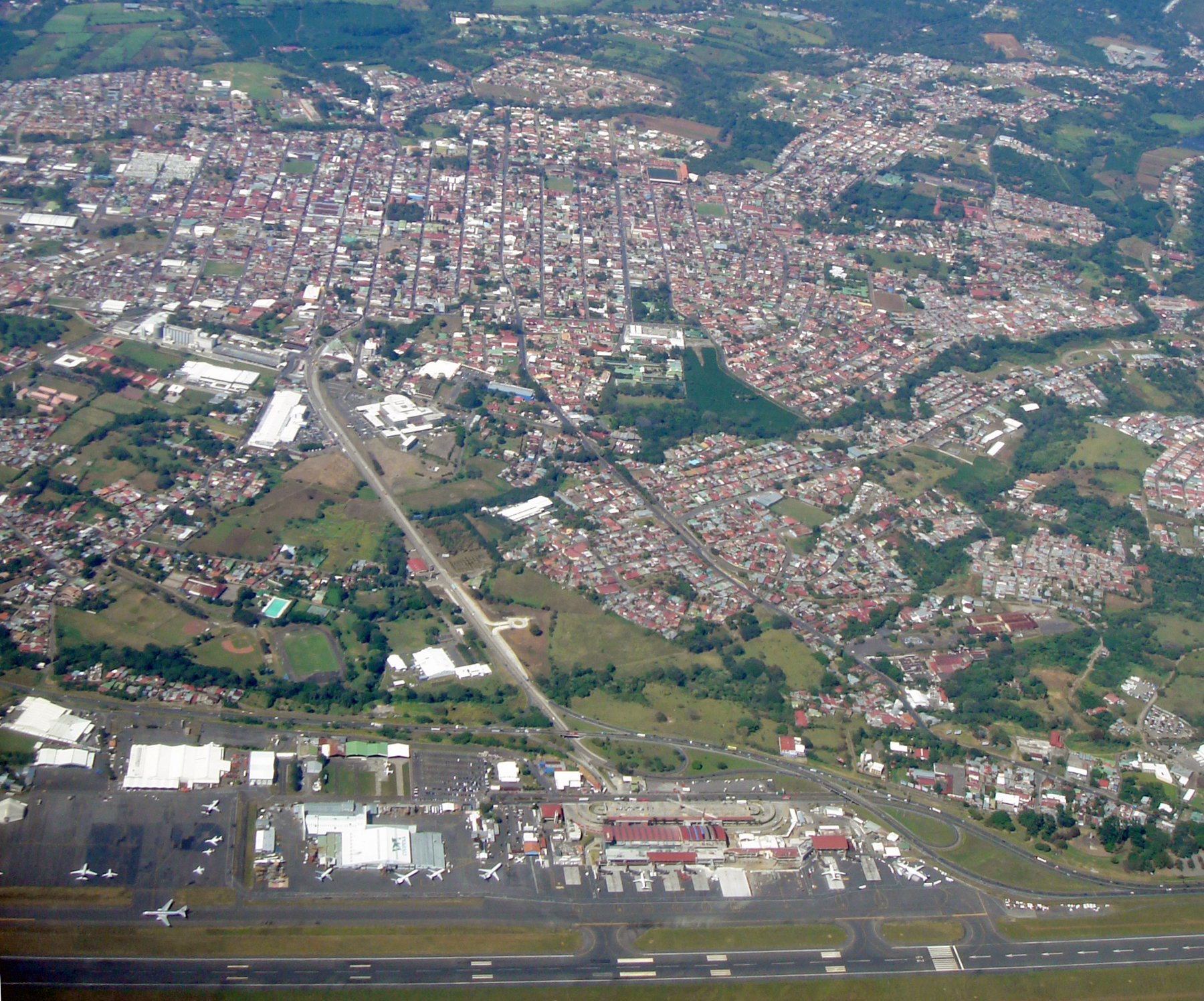 Aerial view of Alajuela city. Below, the Juan Santamaria international airport (SJO). Costa Rica.